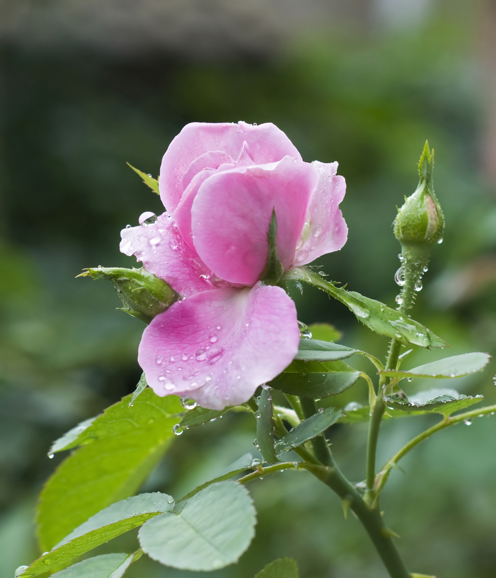 Rosa chinensis